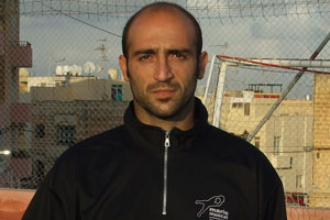 Picture of Mario Muscat.